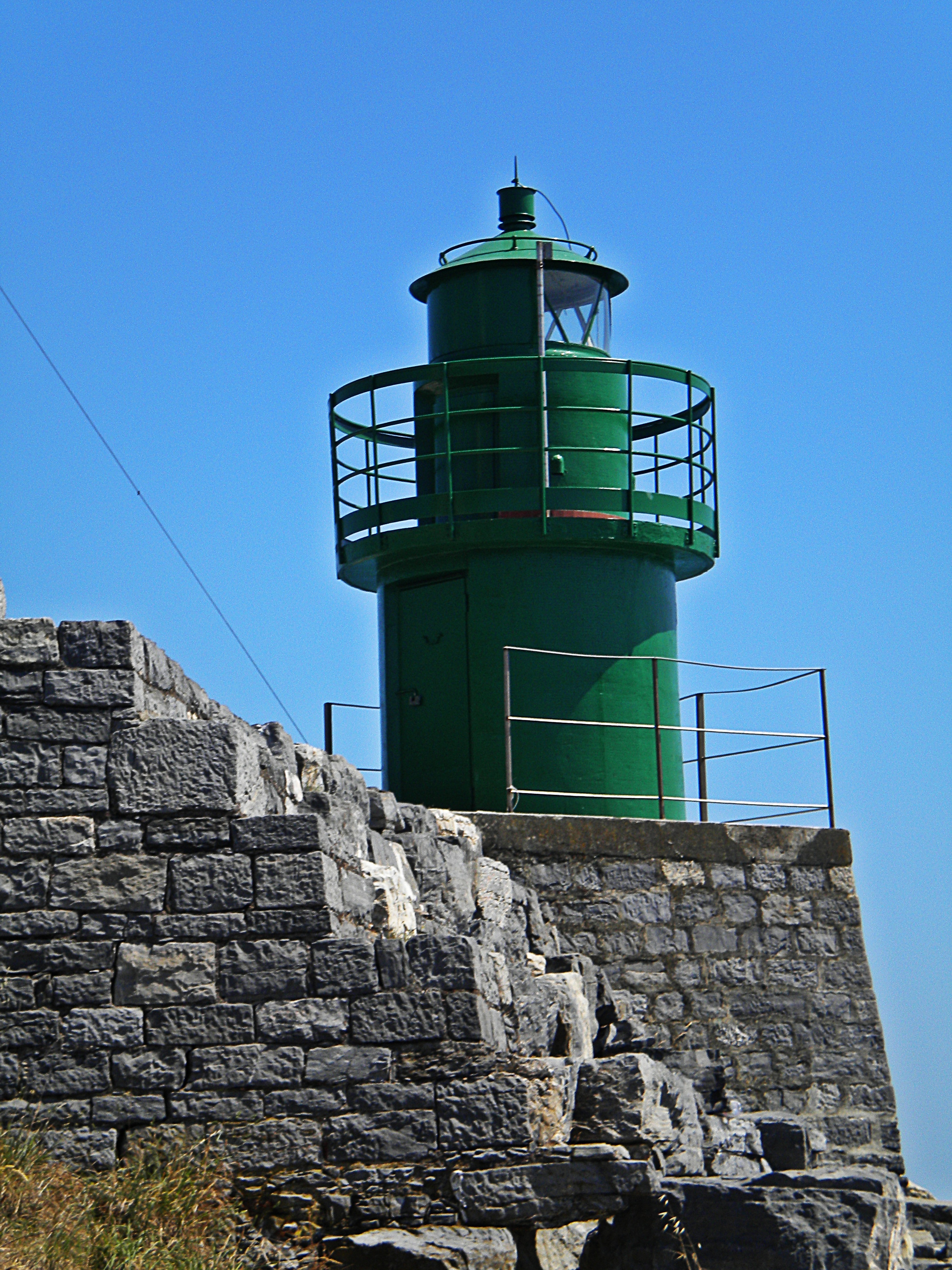 lighthouse